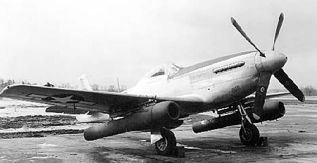 North American P-51D with pulsejets